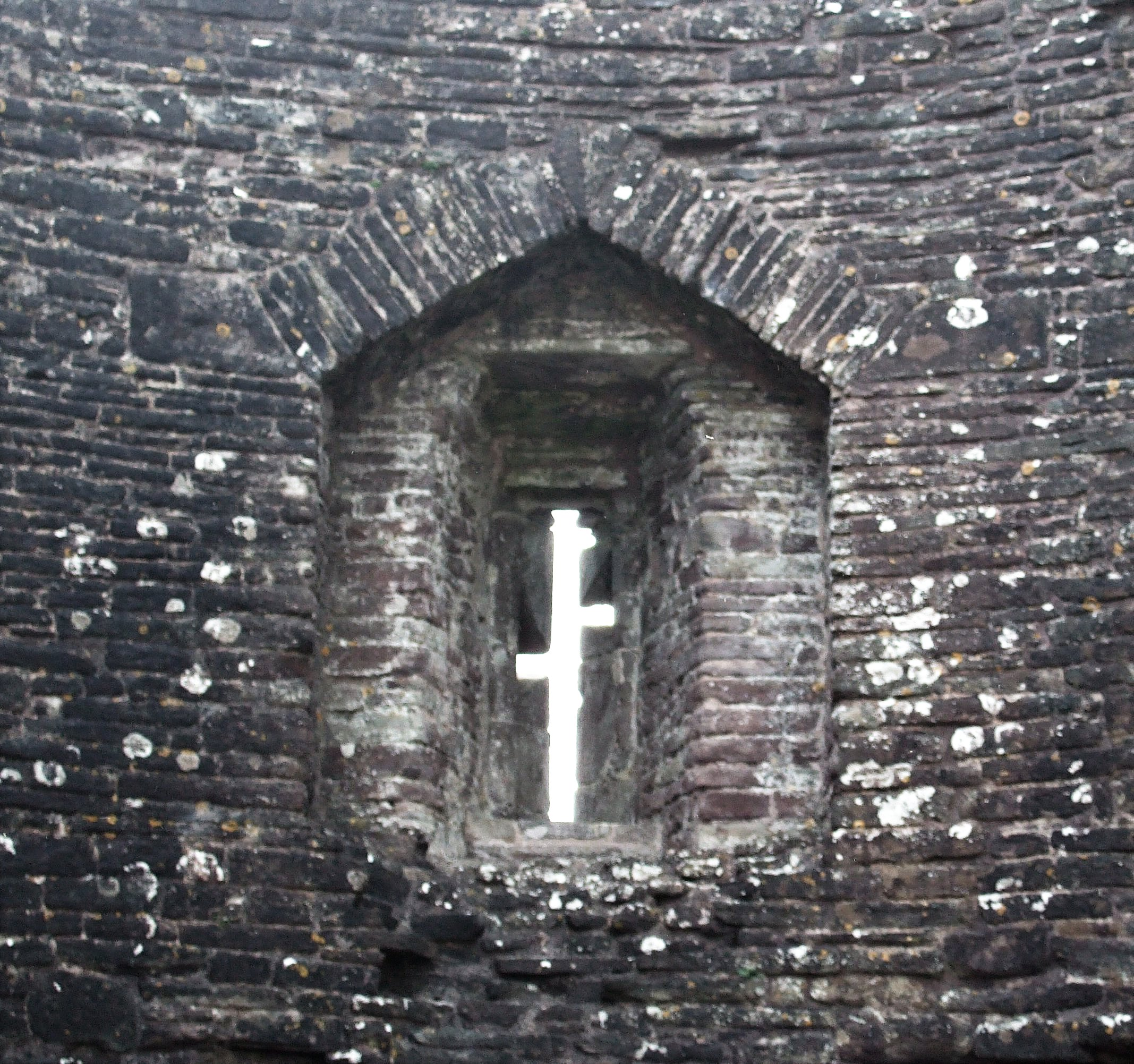 The arrow slits at the White Castle have a distinctive shape, where the cross-shaped side arms are at different levels.